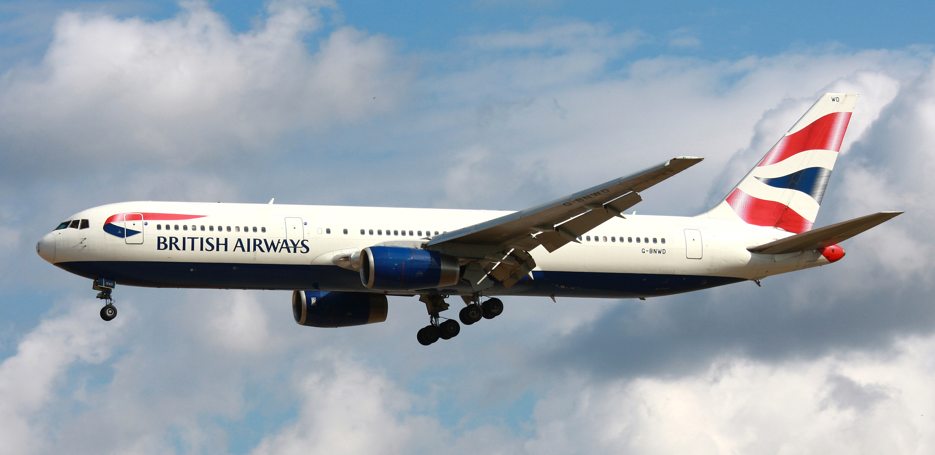 An Boeing 767-300 of British Airways landing at Frankfurt Airport